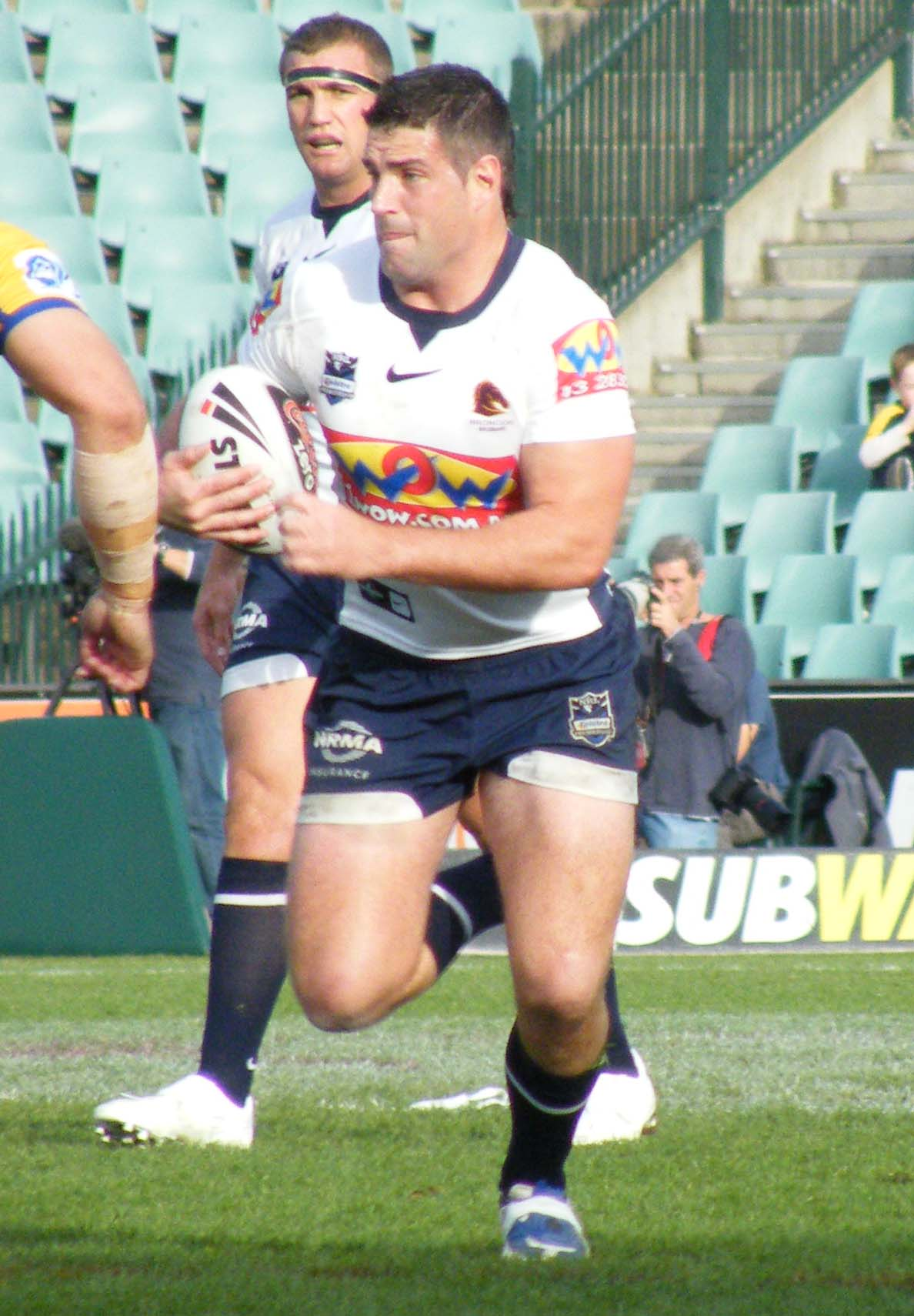 Joel Clinton of the Brisbane Bronco's RLFC